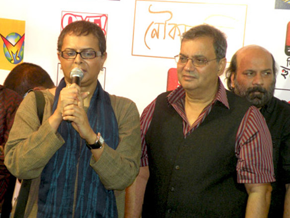 Rituparno Ghosh at the audio release of Kahsmakash